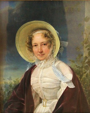 Karolina Chreptowicz, née von der Roenne (1780-1846)